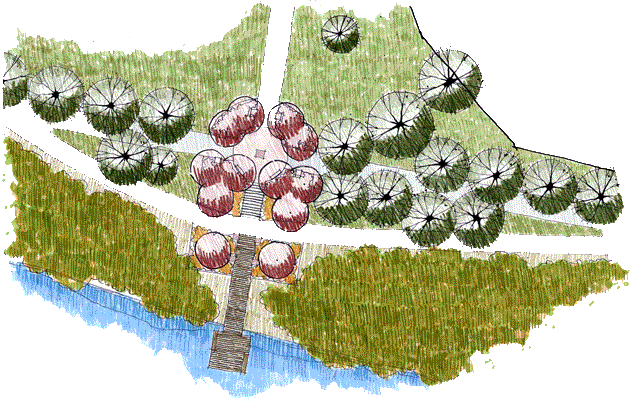 A sketch of the river node project in the Second Century